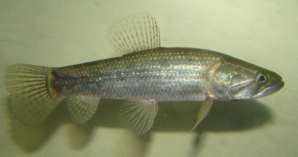 Hoplias malabaricus from Pelotas River, Rio Grande do Sul, Brazil.